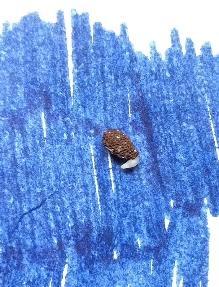 One sprouted kiwi seed (cropped)